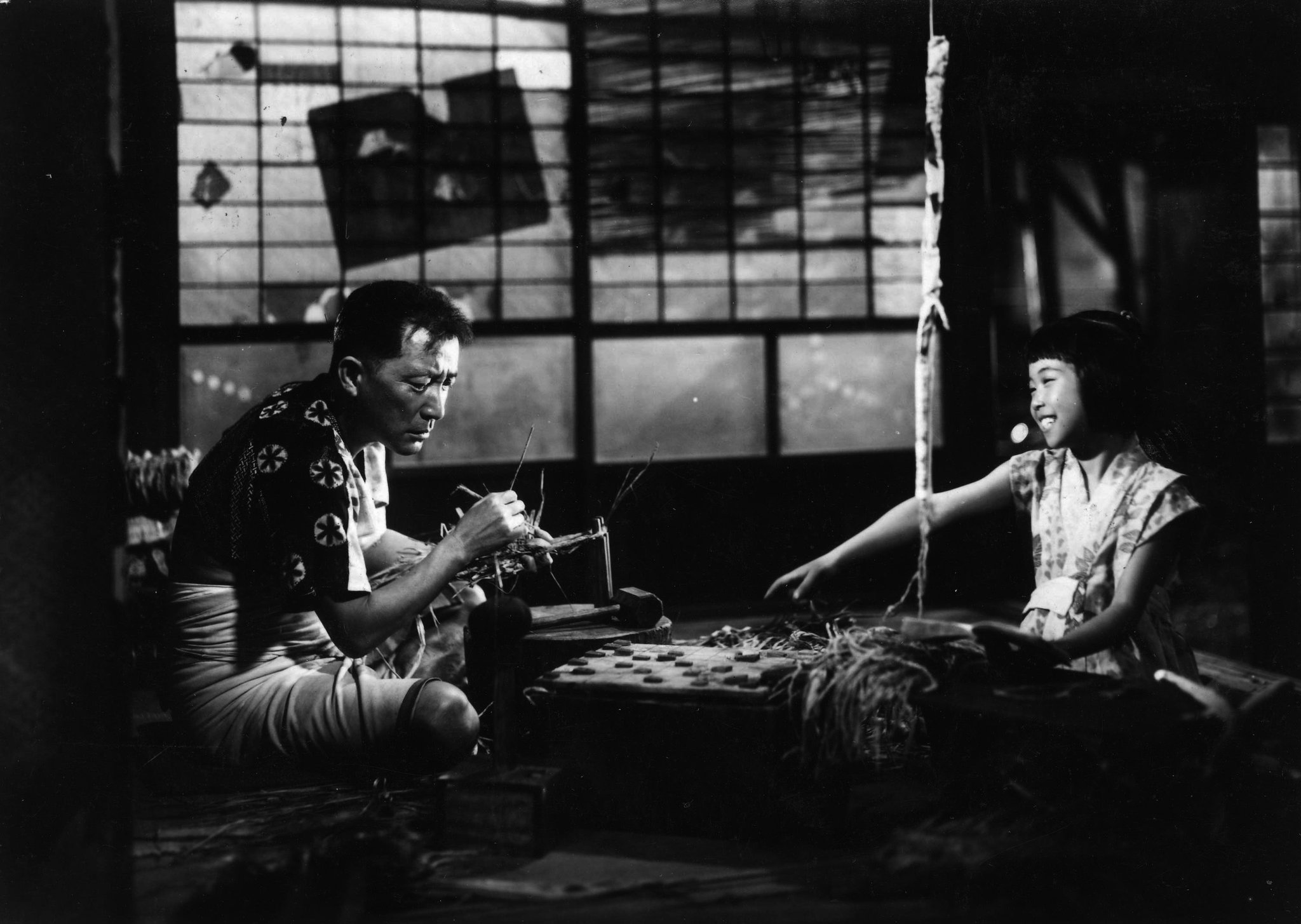 Tsumasaburō Bandō and Teruko Naka in Ōshō (王将) directed by Daisuke Itō - 1948